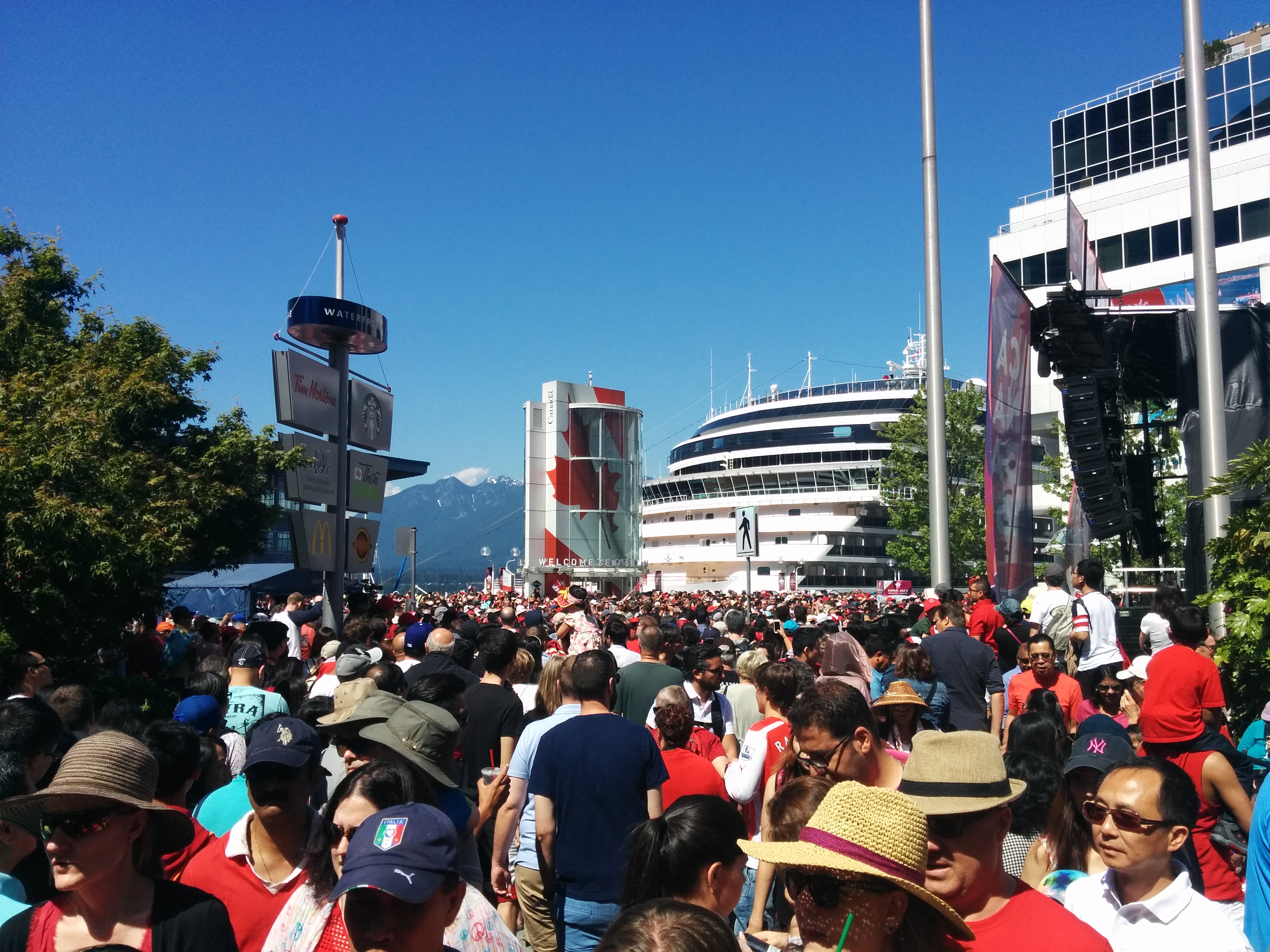 Canada Day celebrations at Canada Place in Vancouver, British Columbia on 1 July 2017.